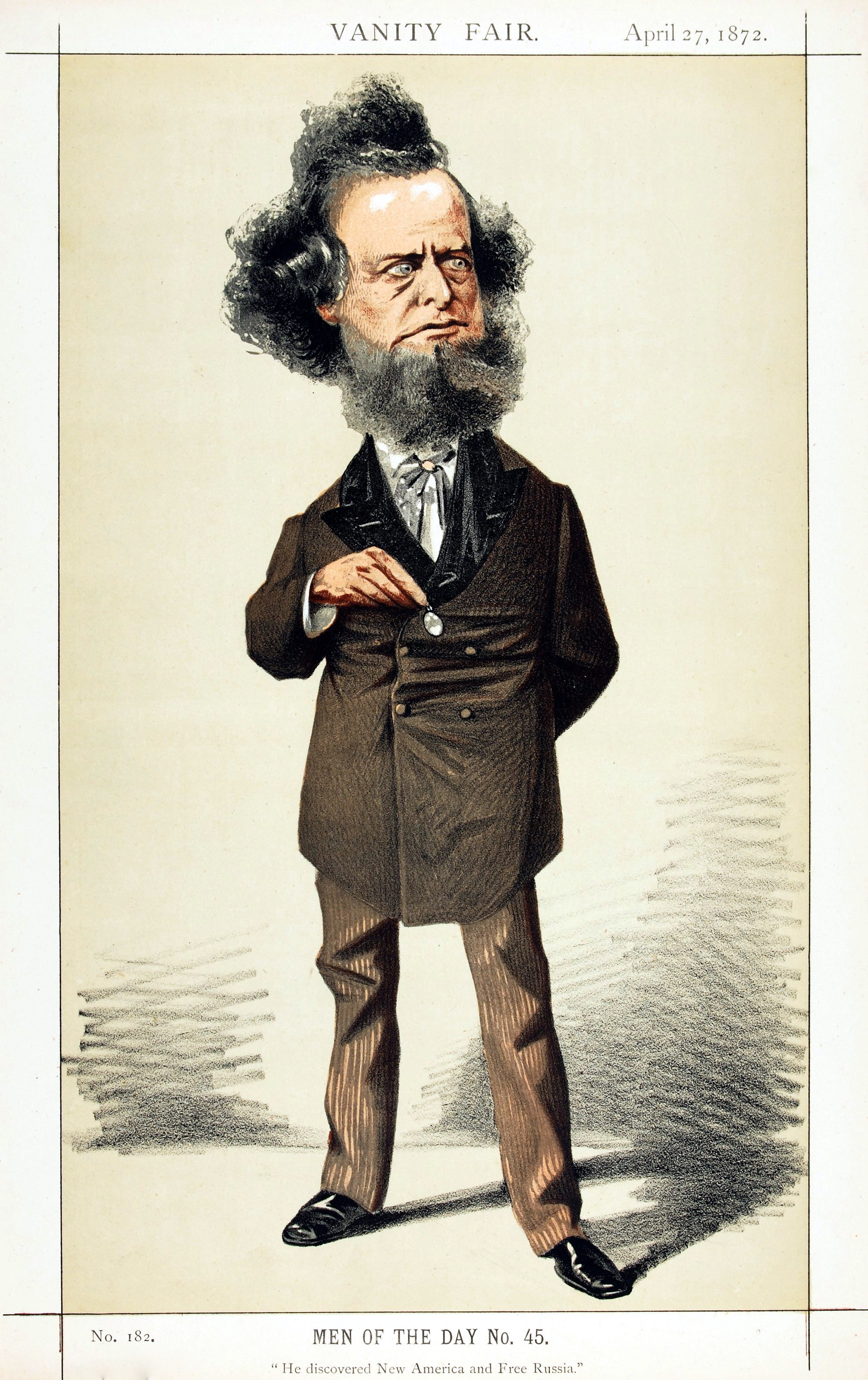 Men of the Day No.45: Caricature of Mr William Hepworth Dixon. Caption reads: "He discovered New America and Free Russia"